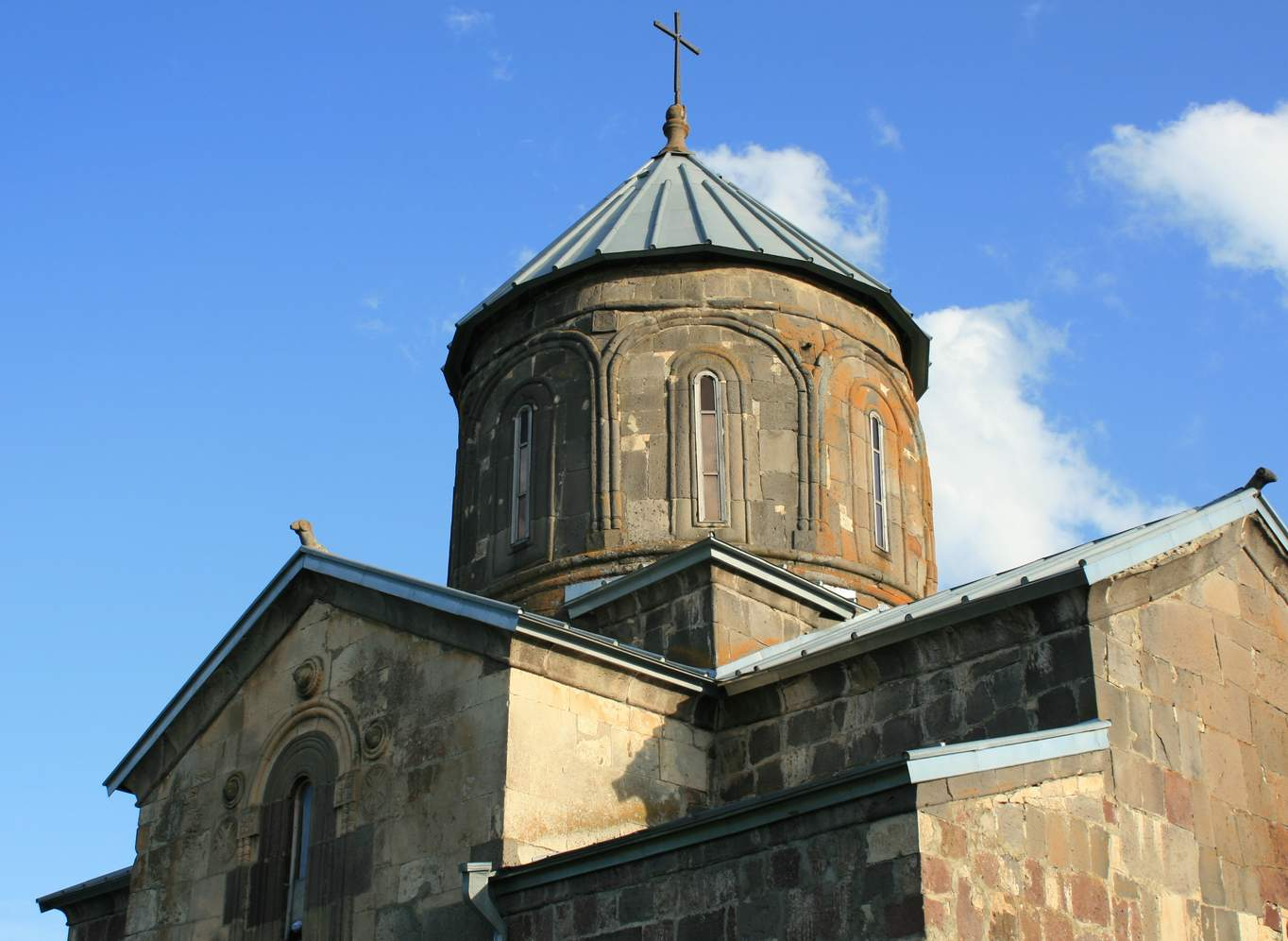 Nikozi Cathedral. Dome (Georgia)